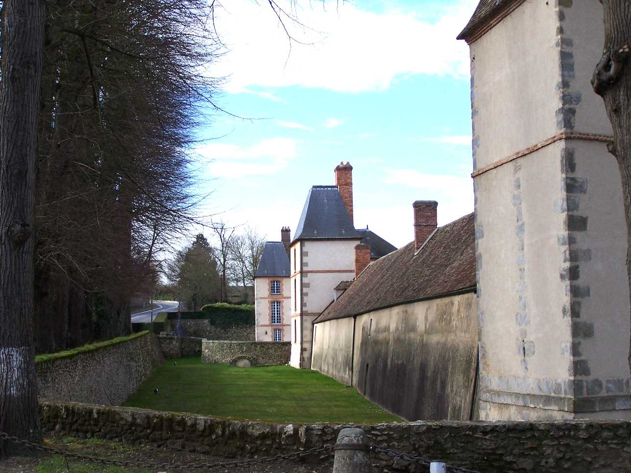 Castle of Les Mesnuls (Yvelines, France), moats